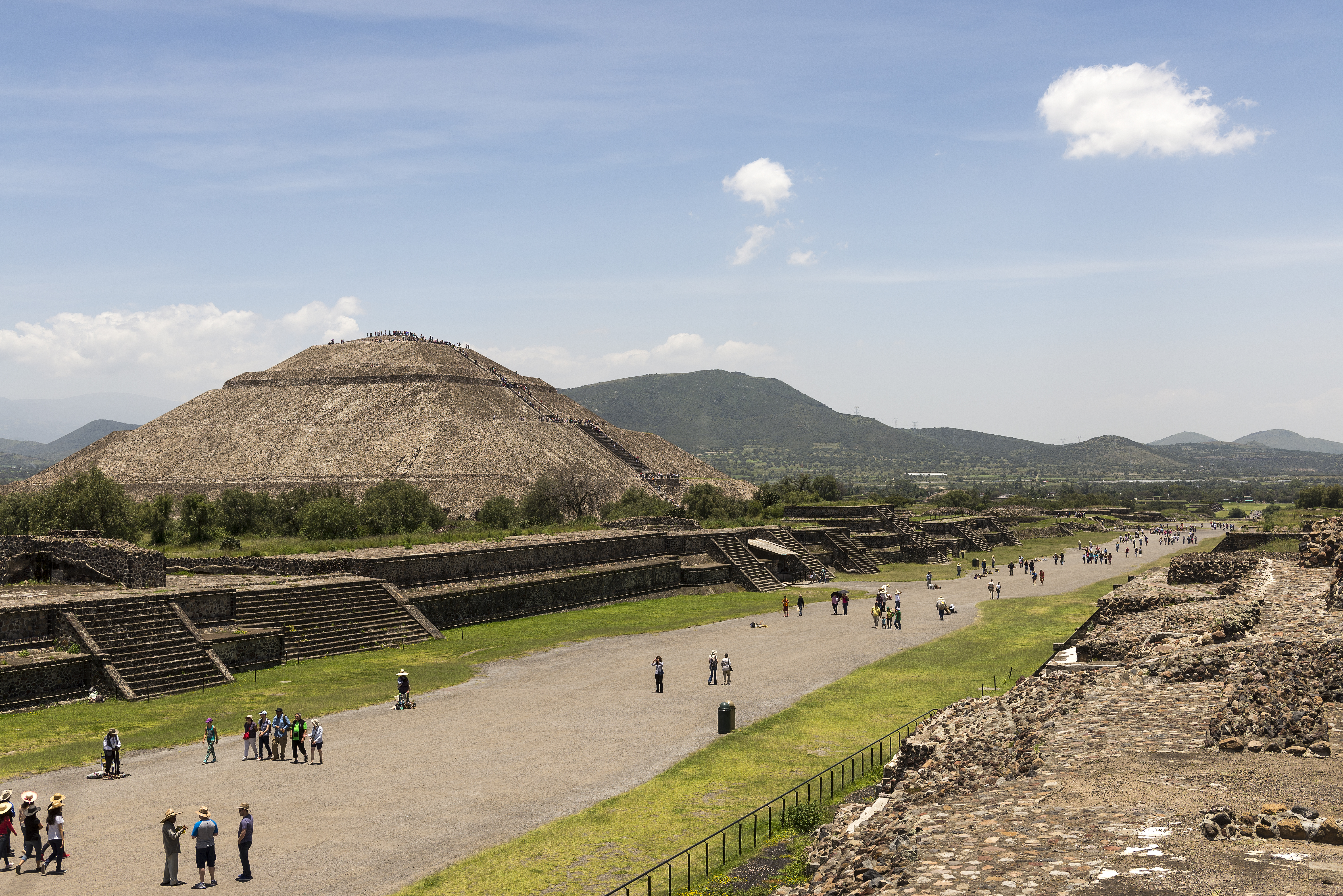 "Aztec city" Teotihuacán (Mexico), Avenue of the Dead and Pyramid of the Sun, a World Heritage Site by UNESCO